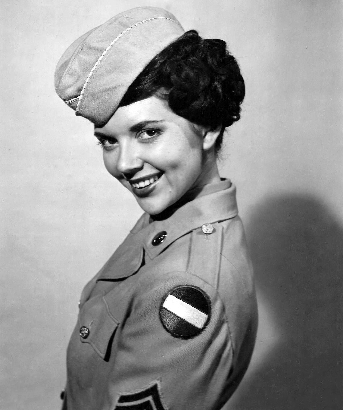 Jean Porter in G.I. Jane - publicity still (cropped)